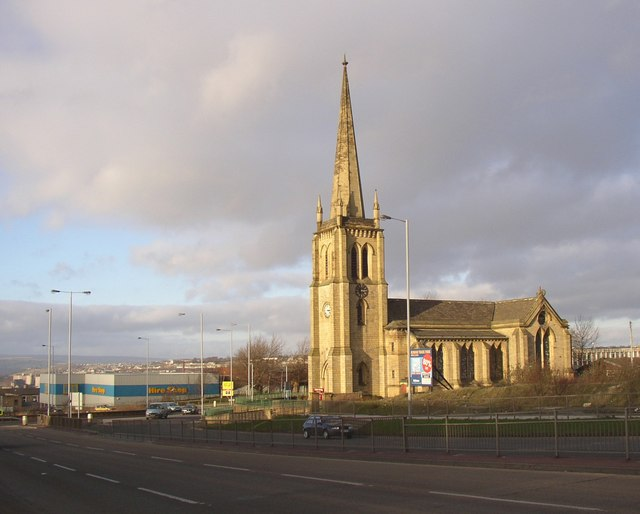 View north across the A650 Wakefield Roat at Bowling, Bradford, West Yorkshire, with St John's parish church on the right